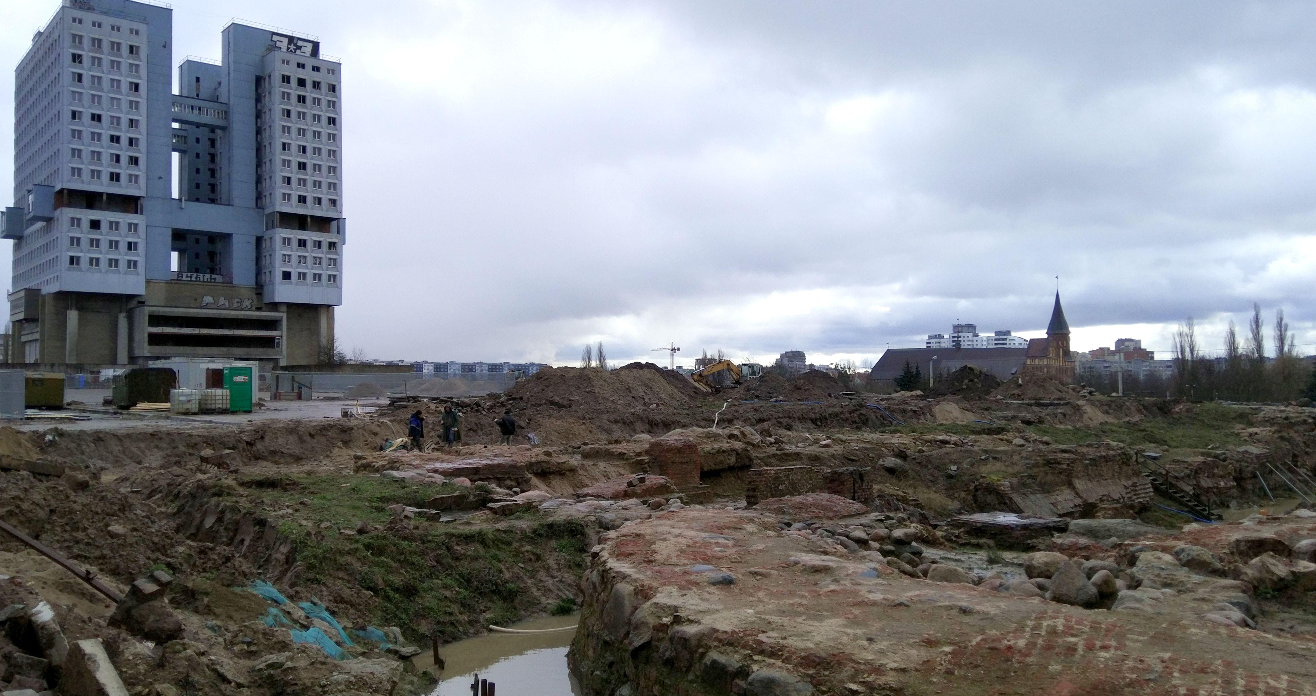 Archaeological excavation on old Palace Square near the House of Soviets in Kaliningrad